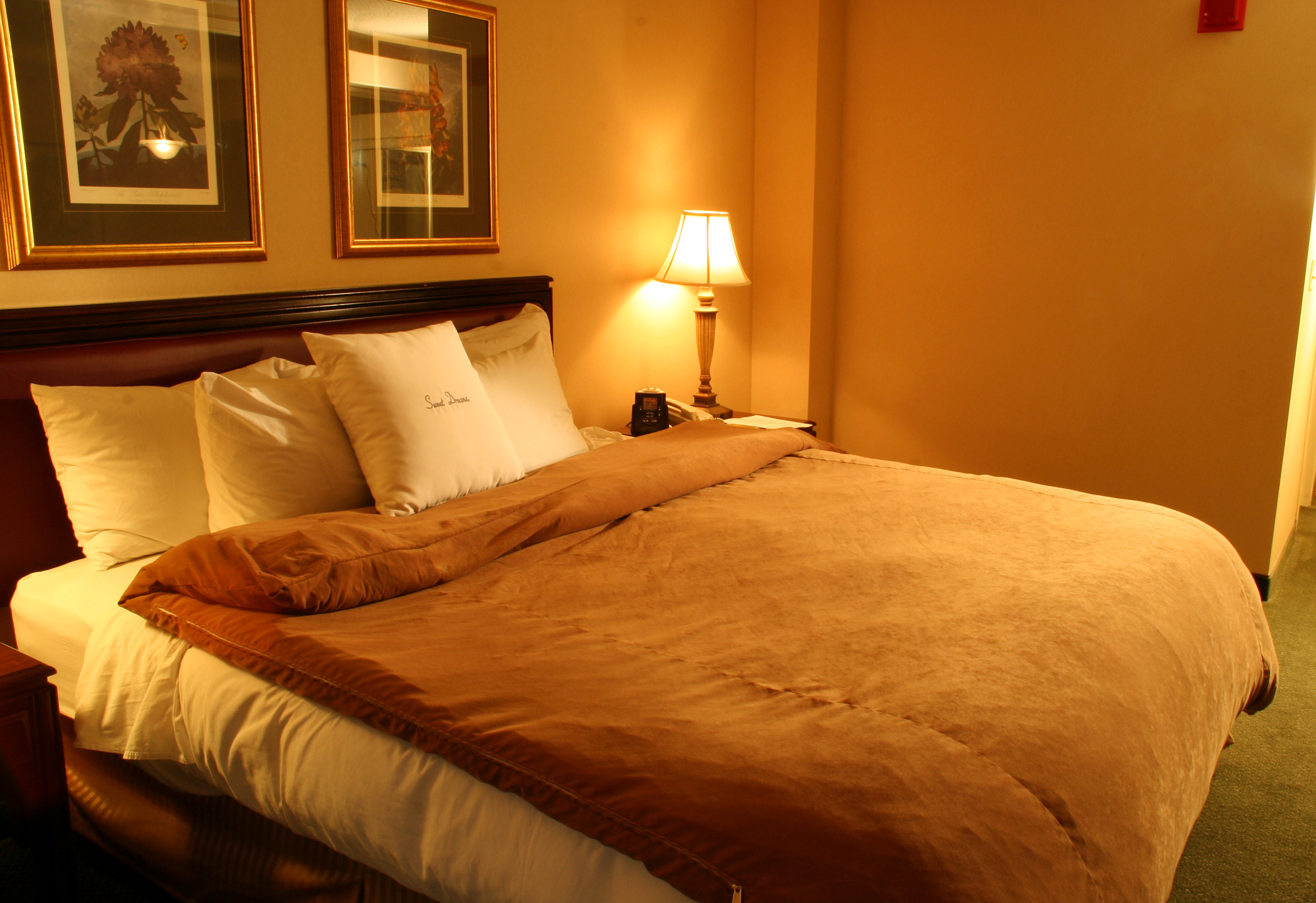 Hotel suite bedroom in the Doubletree Hotel in downtown Columbus, Ohio.